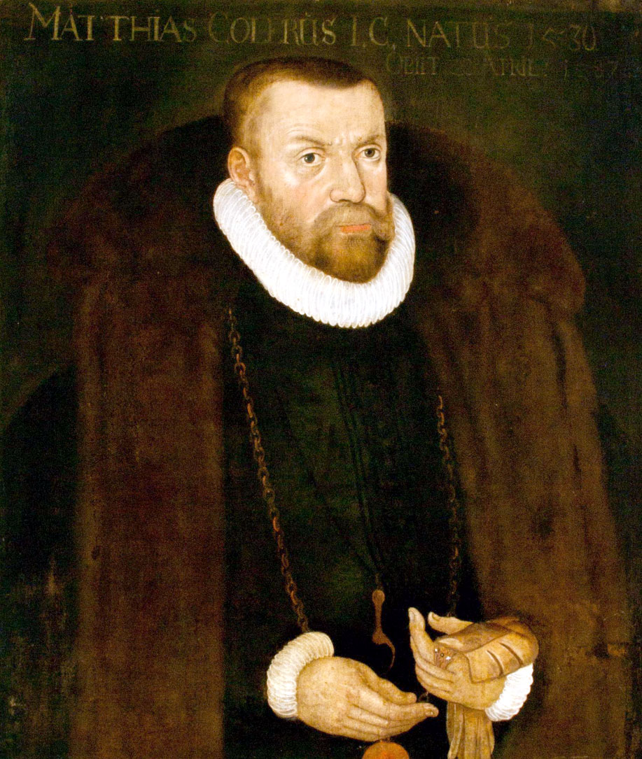 Matthias Colerus, (1530-1587 ) Jurists from Germany